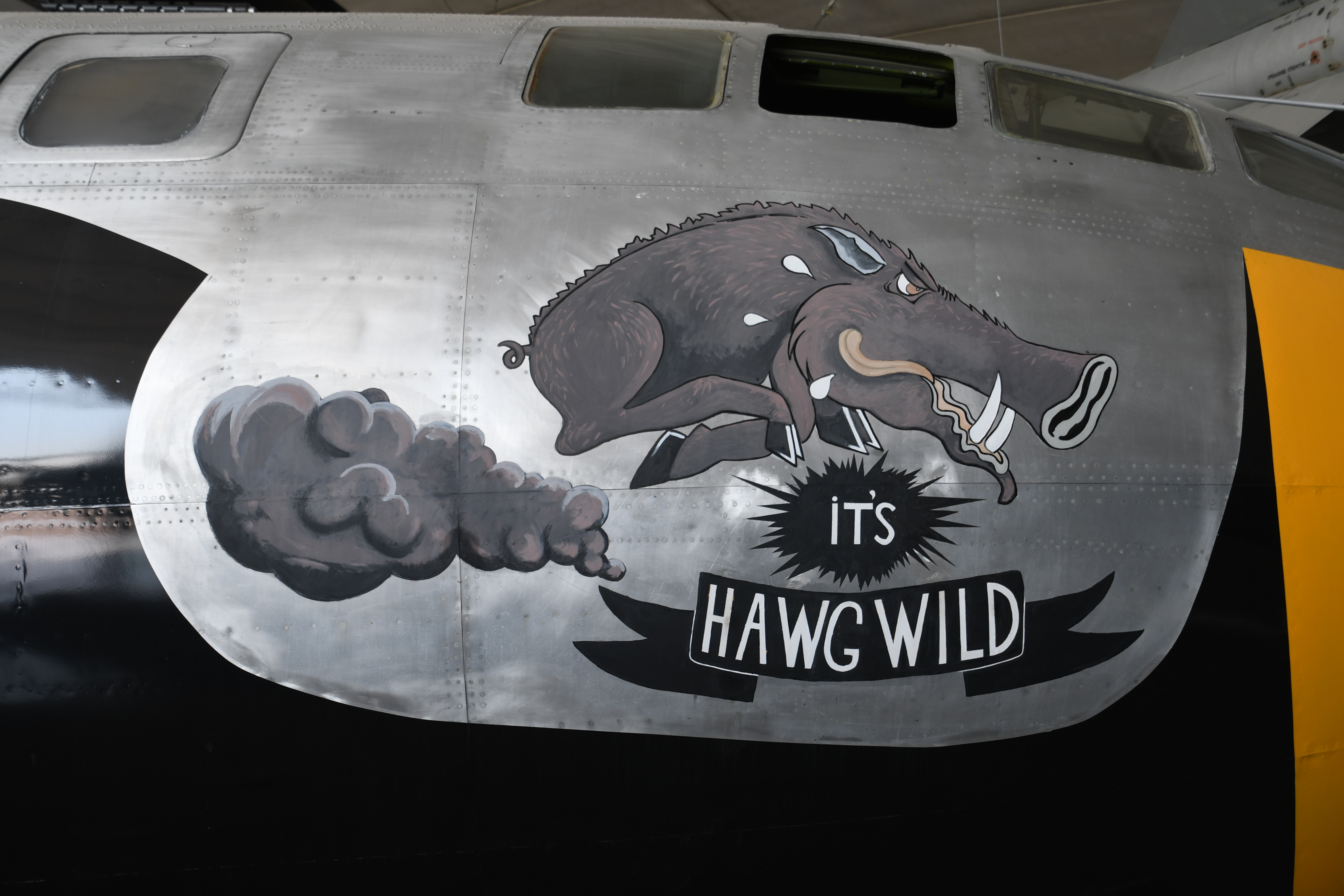 B 29 'It's hawg wild' at the Imperial War Museum, Duxford